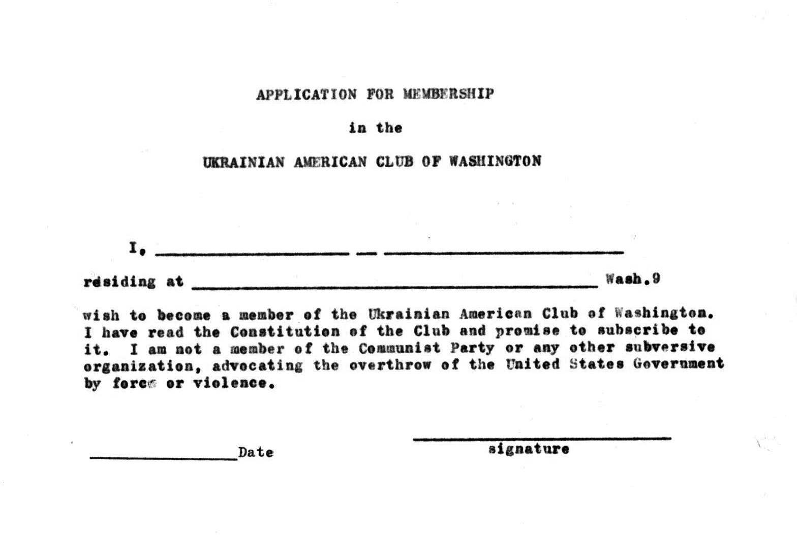 Original Membership Application for Ukrainian-American Club of Washington